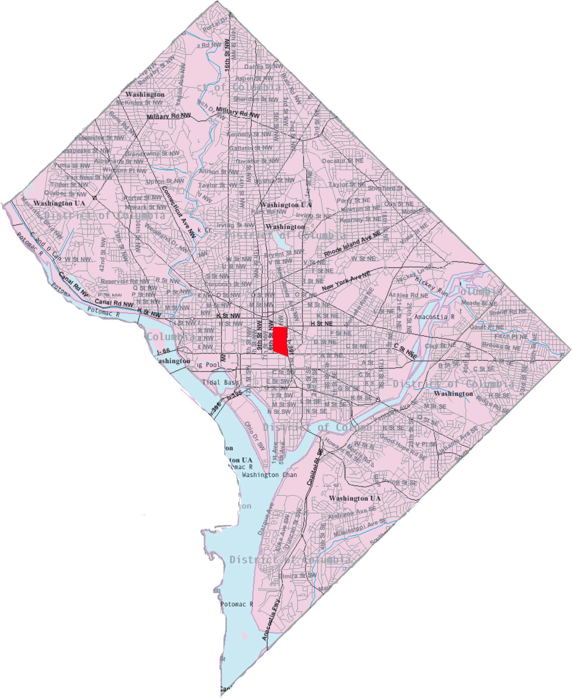 This image is a modified version of a self-generated reference map from the U.S. Census Bureau's American Factfinder at by Wikipedia user Msclguru.